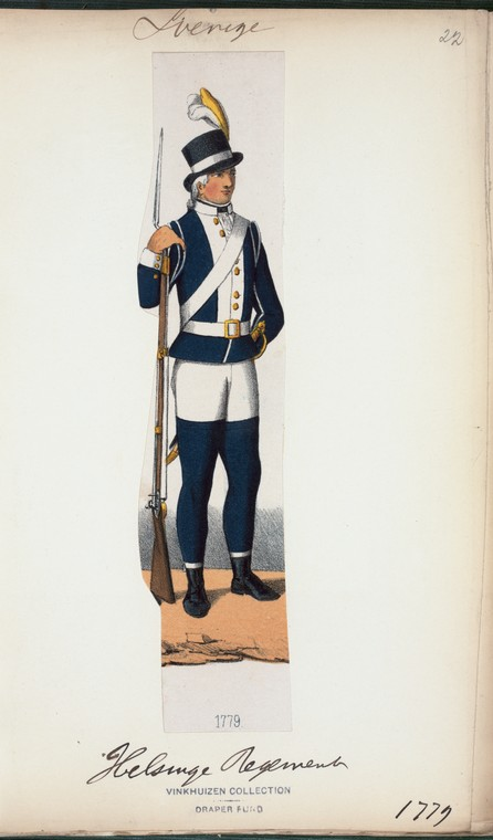 Swedish Soldier from Hälsinge regemente in uniform model 1779